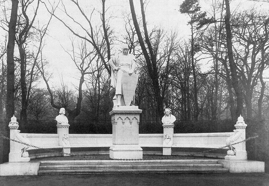 Monument group No. 6 in the former Siegesallee in Berlin. The central monument commemorates Margrave (Coregent) of Brandenburg Johann II (ca. 1237–1281), son of Margrave Johann I. The bust on the left commemorates Count Günther I of Lindow and Ruppin (?–1284); the bust on the right, the merchant Konrad Belitz (?–1308). Sculptor: Reinhold Felderhoff. The sculpture was unveiled on 14 November 1900. While the inclusion in the Siegesallee of the last Ascanian ruler Henry II (the Child), who was of virtually no importance for the history of Brandenburg, was controversial and ultimately based solely on the need to maintain symmetry, with 16 sculptural groups on each side of the monumental boulevard, we have no information about the considerations that led to the inclusion of the Coregent Johann II, who was likewise rather insignificant. The sculptor Felderhoff had a free hand, since no images of the ruler were preserved. The only physical characterization of Johann II (in the chronicle of Brandenburg's rulers) described him as small in stature, energetic and powerful, but this could not be taken into consideration, because the statues were required to have a uniform height. Felderhoff broke with the prevailing pattern by virtue of eschewing the customary historicizing approach and choosing an (almost modern) flat-featured, typifying form. He was the only Siegesallee sculptor who dispensed with individualizing the figure, instead creating a prototypical warrior who gazes down with a calm, serious expression. The sculpture shows Johann II leaning on a large shield with the coat of arms of the house of Ballenstedt, since Esico von Ballenstedt is regarded as the founder of the Ascanian dynasty.